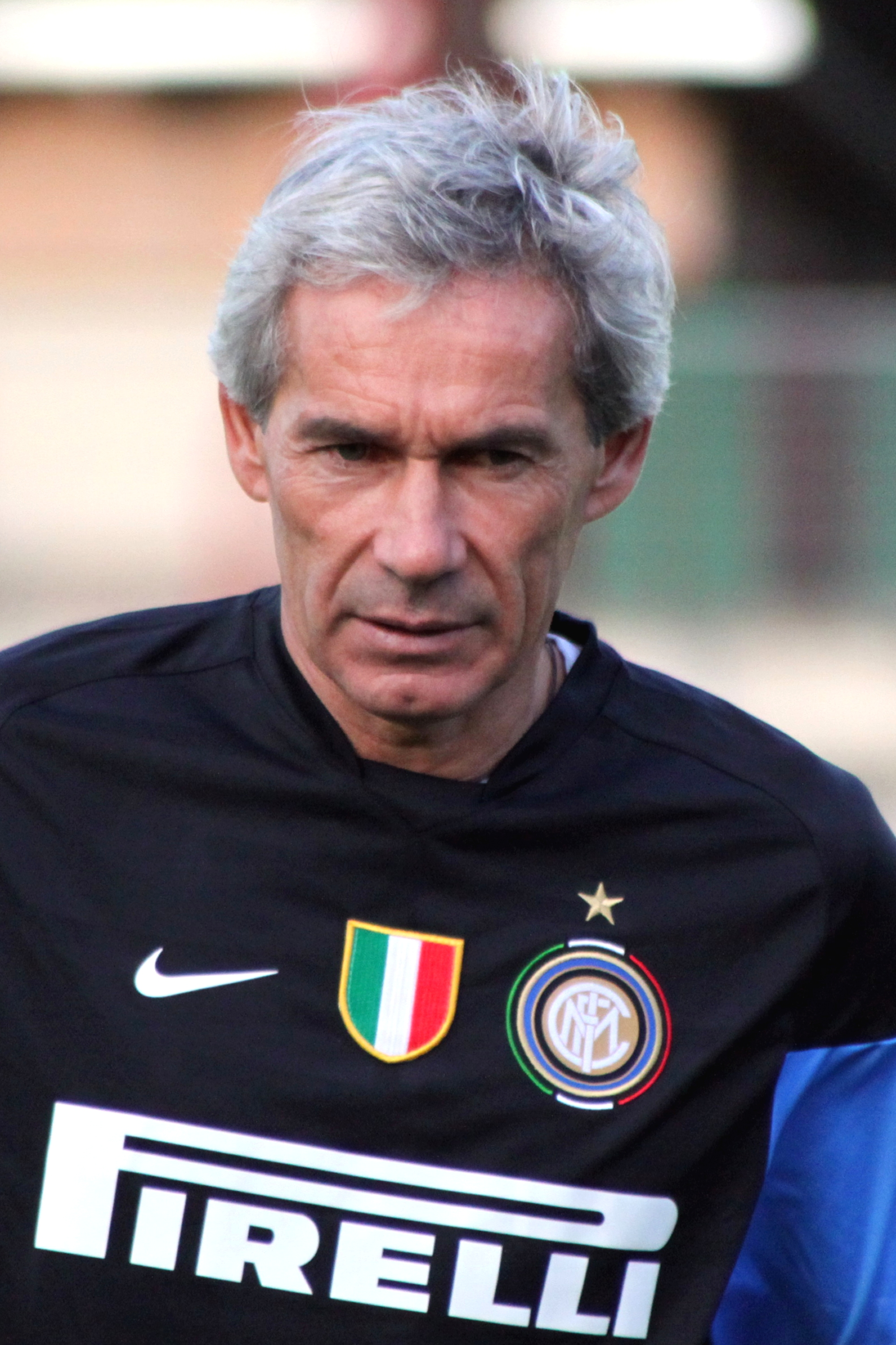 Giuseppe Baresi - F.C. Internazionale Milano